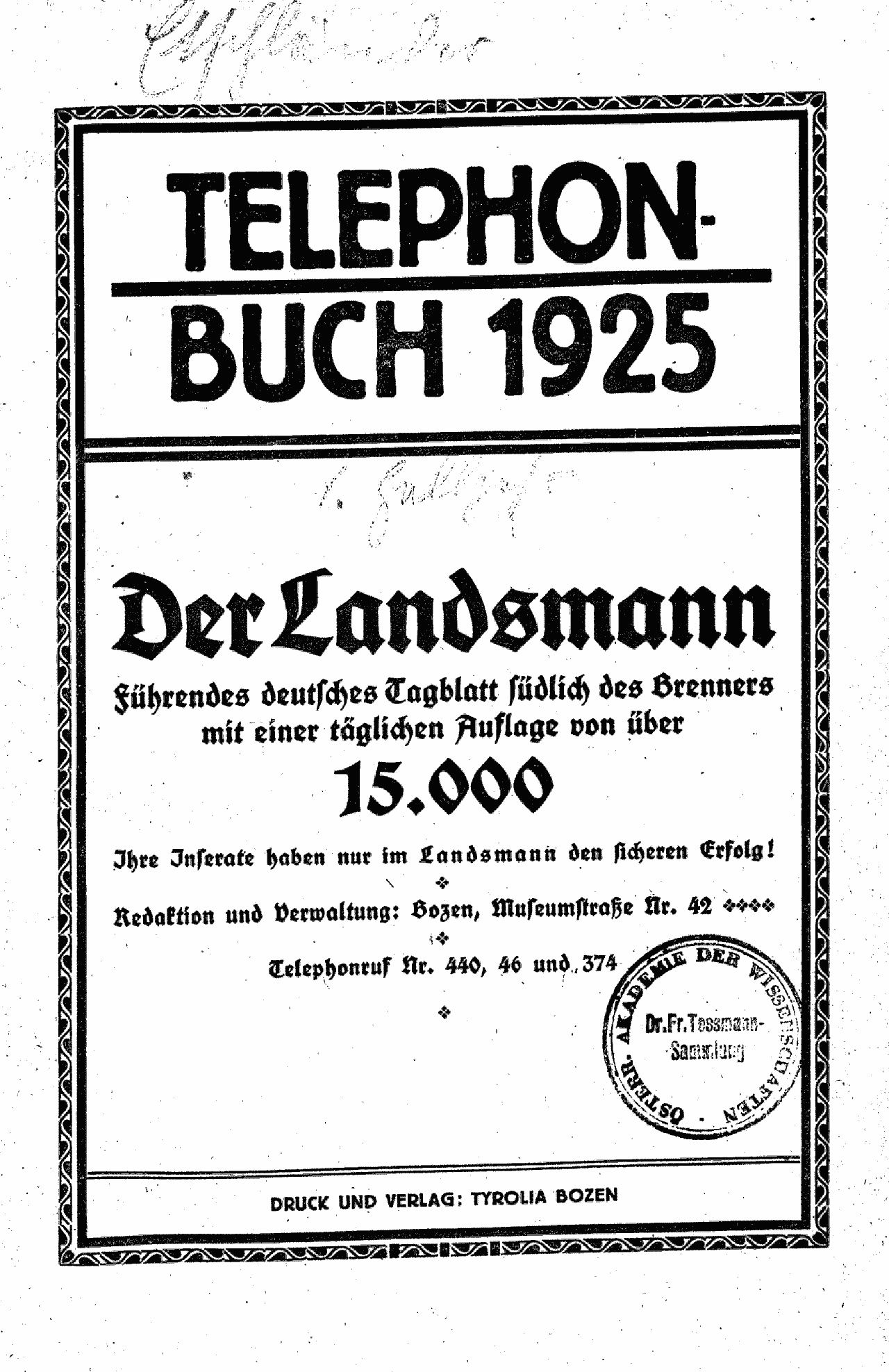 South Tyrol's Telephone directory 1925